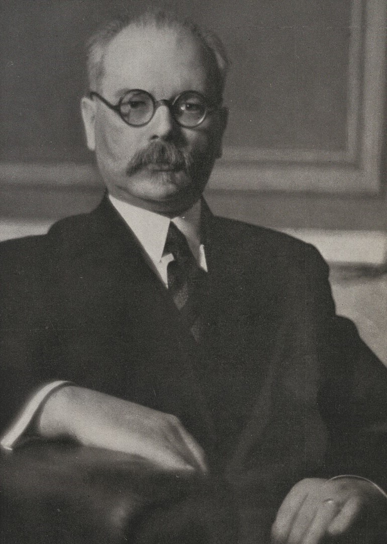 Ivan Dérer, Czechoslovak minister, 1933